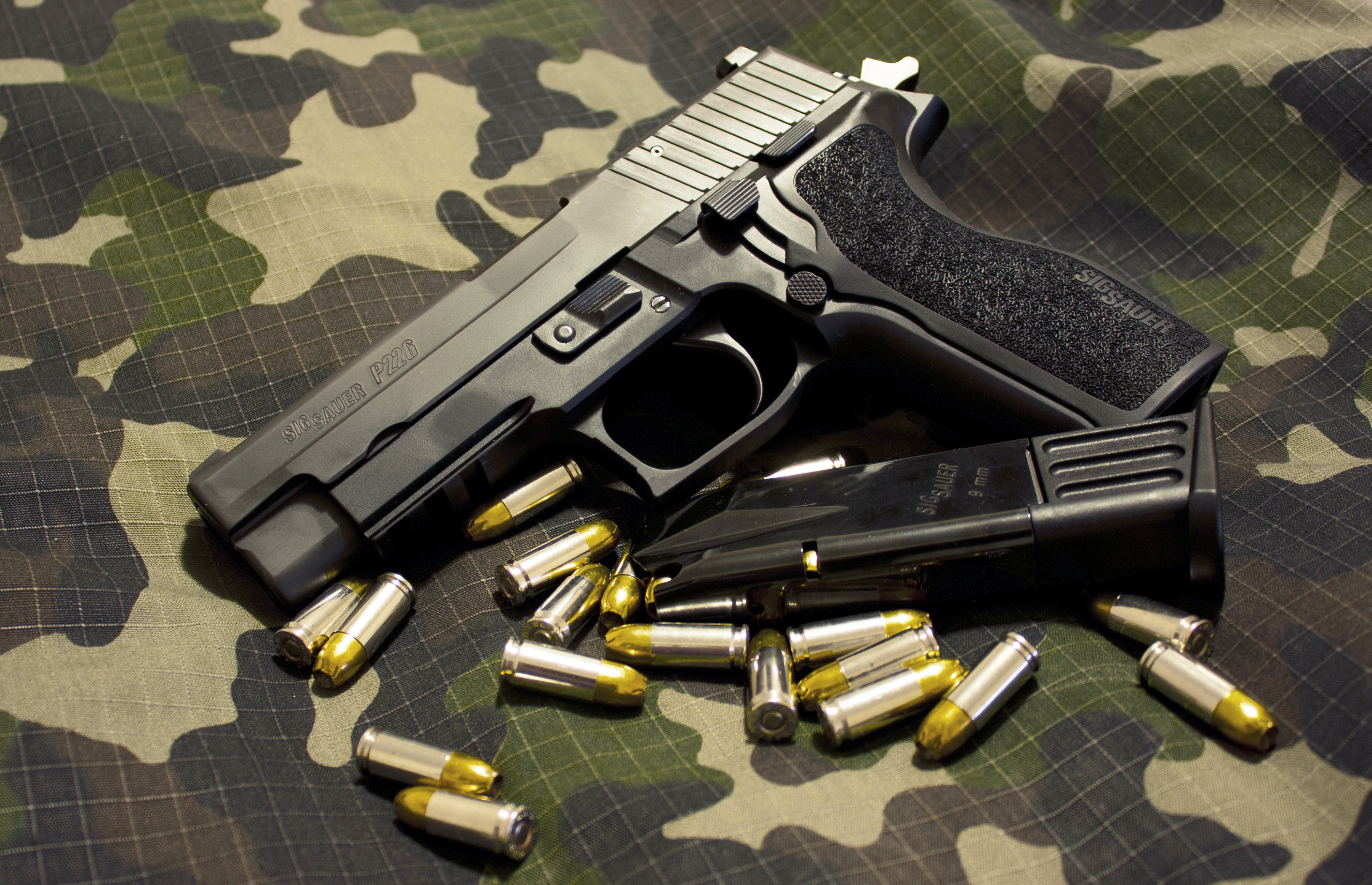 Sig Sauer P226 E2 - 10rd Magazine standard in 9mm Remington Home Defense Jacket Hollow Points